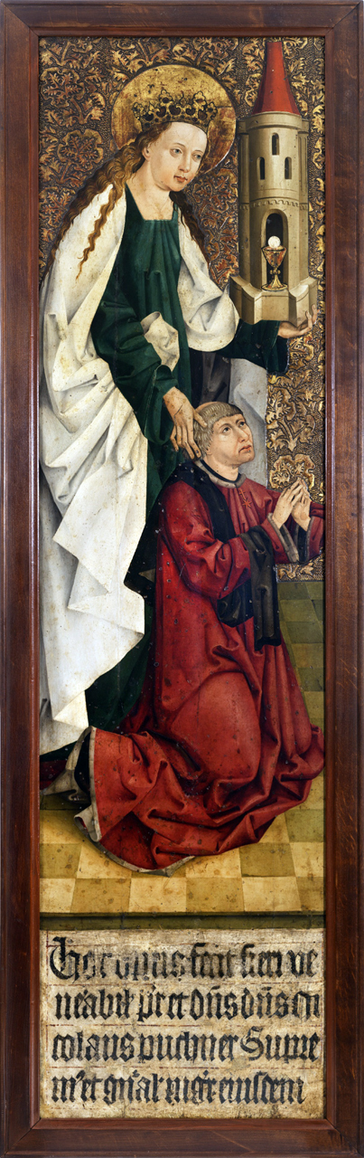 St. Barbara and M. Puchner, Master of the Altarpiece of the Knights of the Cross with the Red Star, National Gallery in Prague